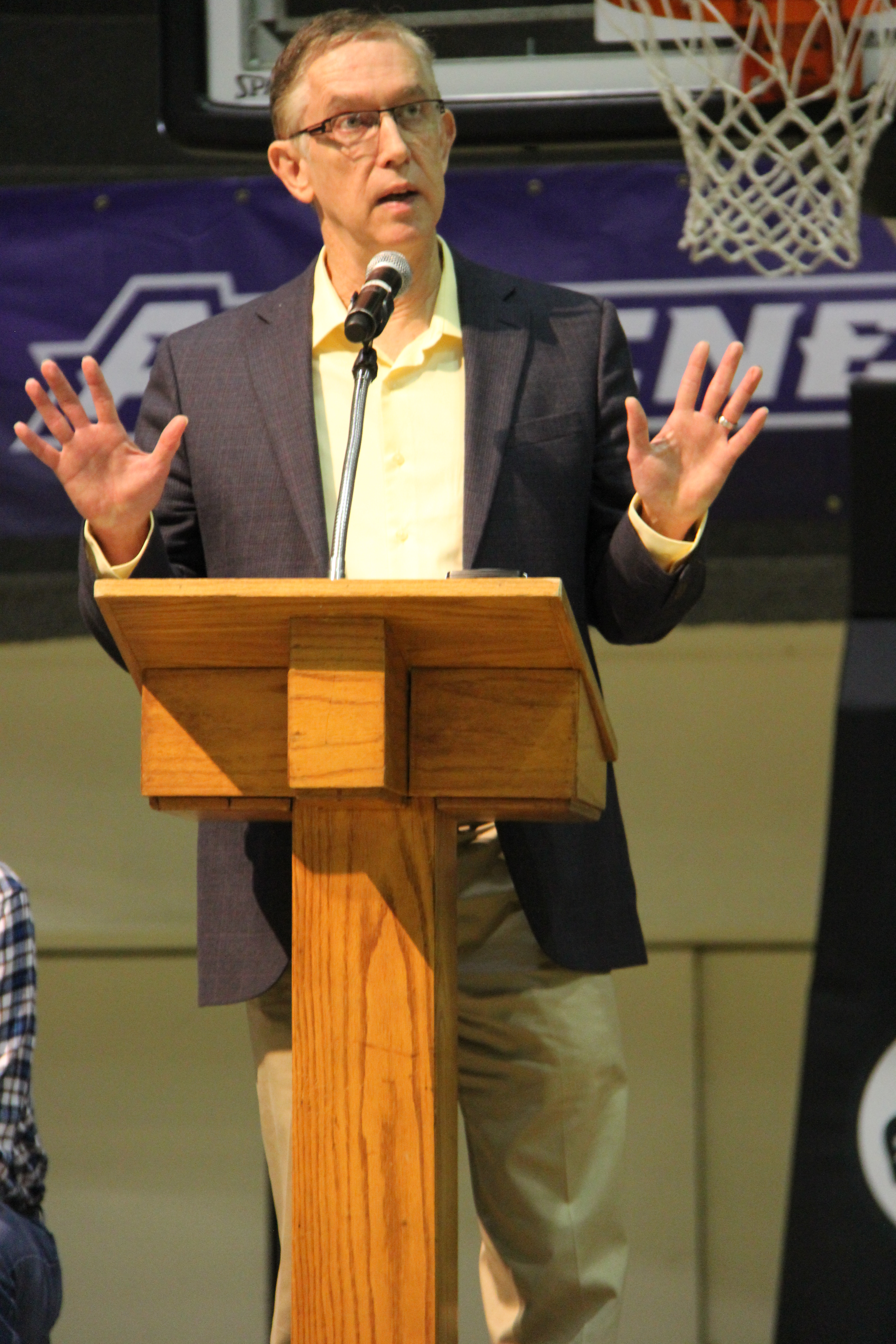 C. Leonard Allen speaks at ACU chapel in 2014.